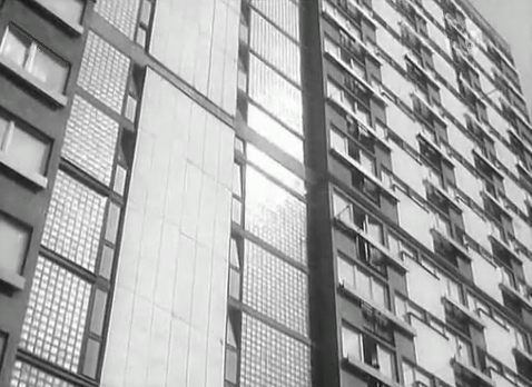 Block of flats in Warsaw, Poland 1972.